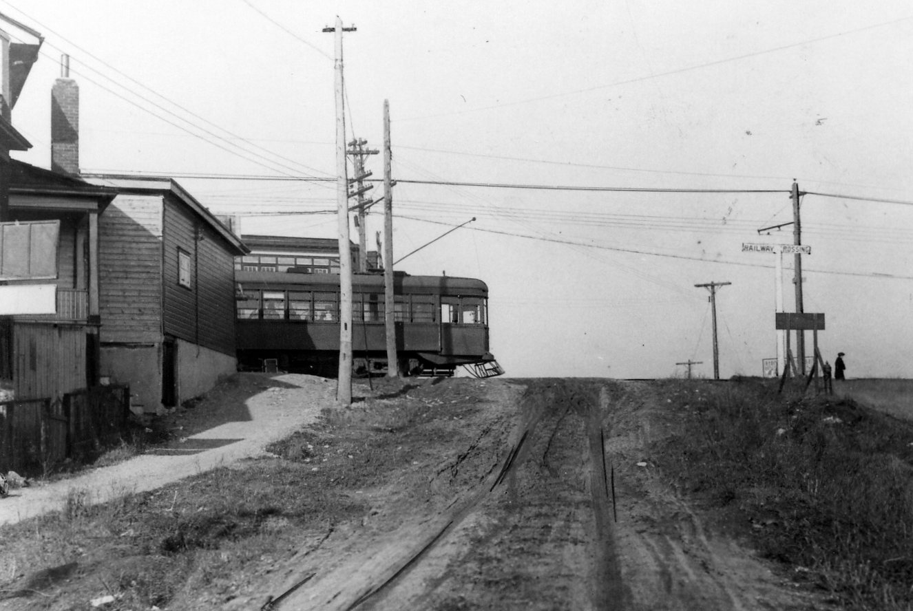 Looking north on Birchmount Road at a privately owned radial streetcar on Kingston Road. Since the Birchmount Loop hasn't yet been built this image is from prior to 1928.